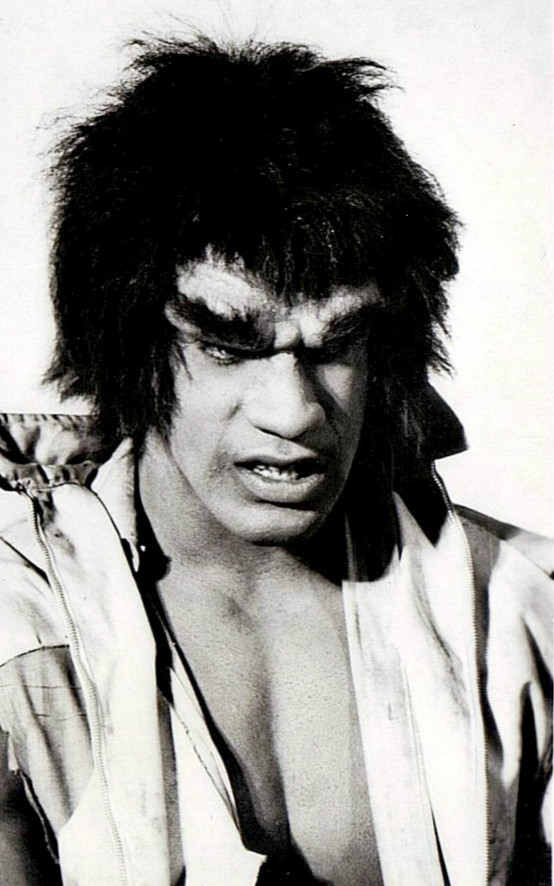 Photo of Lou Ferrigno as The Incredible Hulk from the television special that preceeded the regular television series.